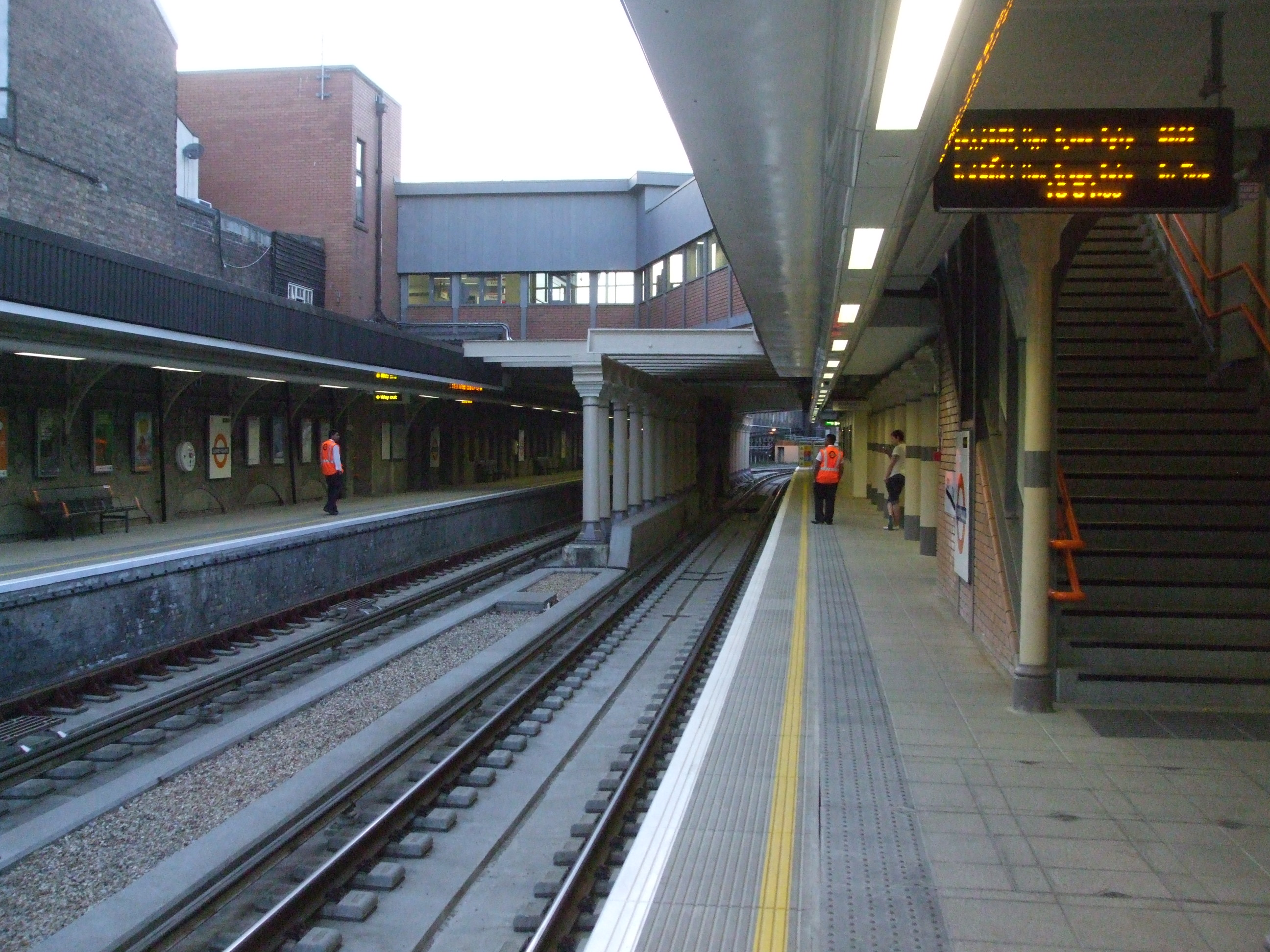 Surrey Quays station looking north, the day it reopened as part of London Overground